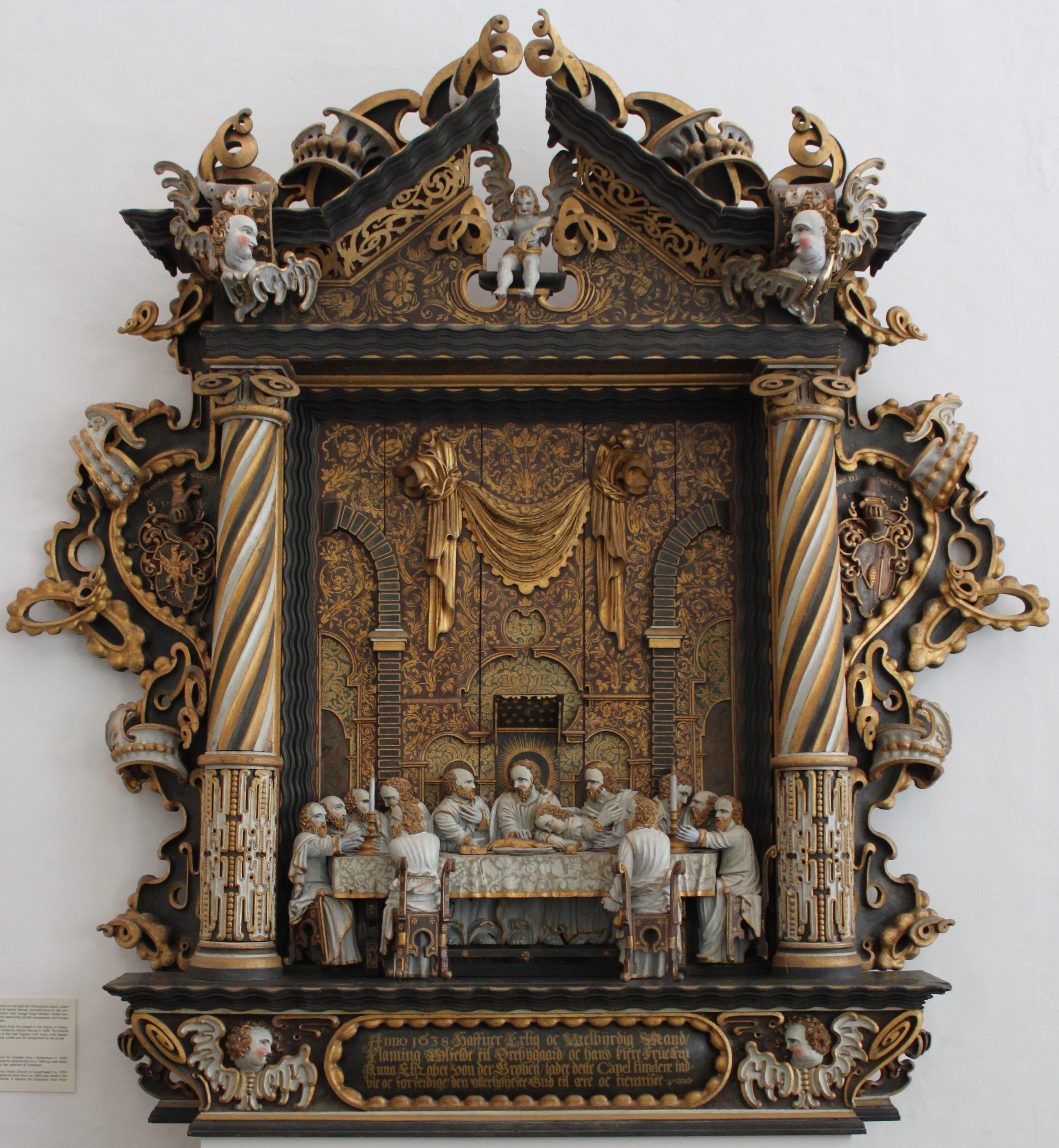 Altarpiece from the chapel in the manor of Orebygård, carved by Henrik Werner in 1638. The central scene is the Last Supper, with many vivid details.